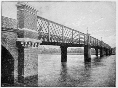 The original Wandsworth Bridge, London (demolished 1937)